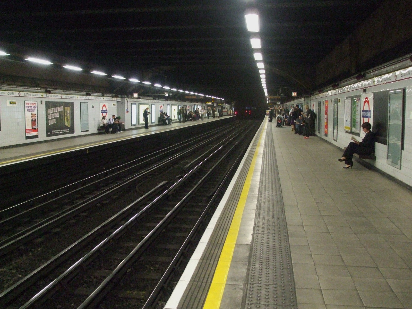 Euston Square tube station platforms looking west